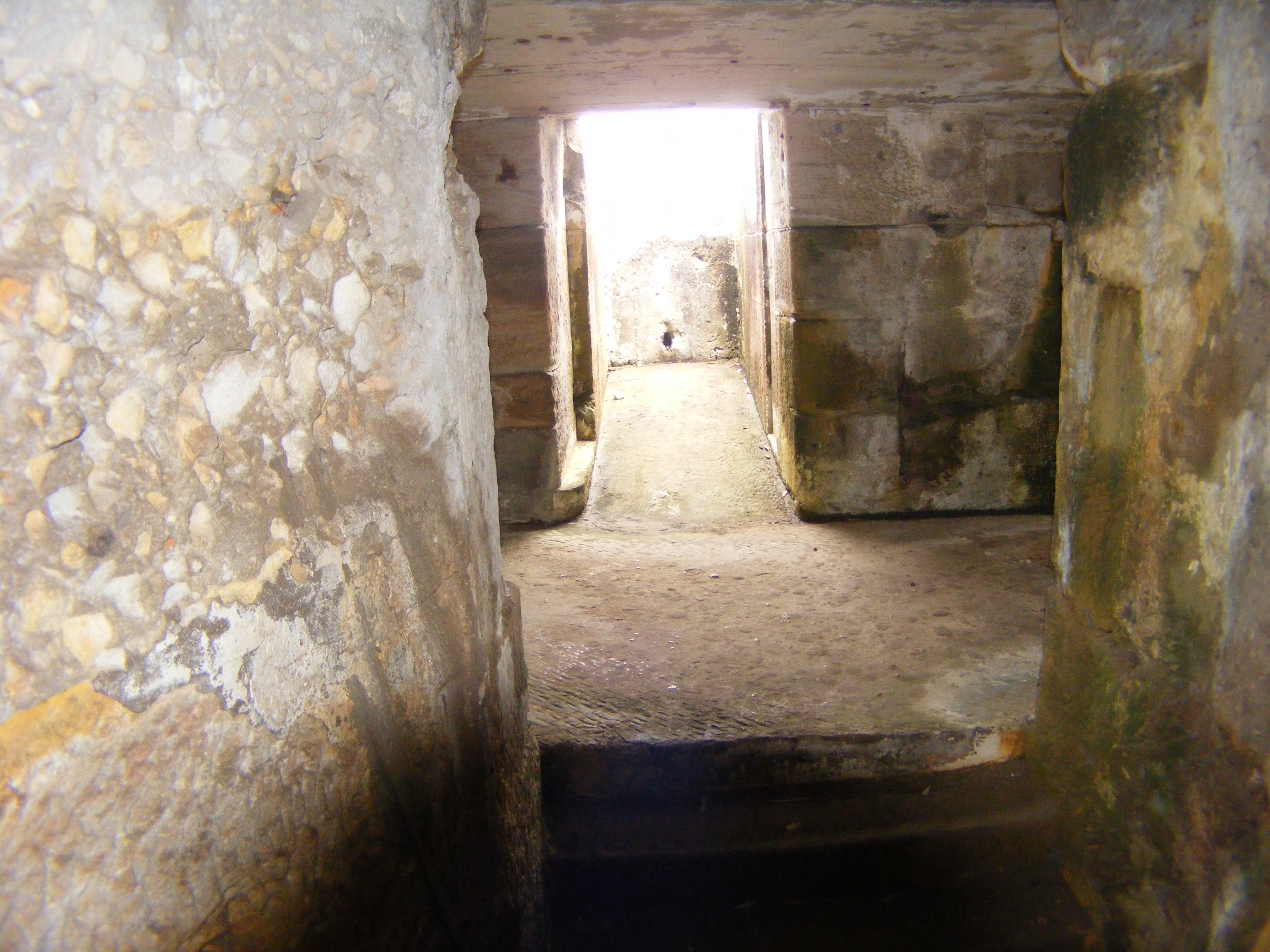 Sydney Harbour Defences. Inside a fort in Sydney Harbour